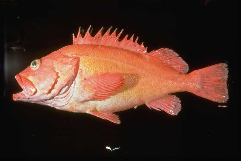 A pic of the Yelloweye rockfish (Sebastes ruberrimus).